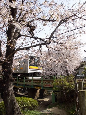 桜のトンネルをくぐる南武線と宿河原用水 撮影日：2006年 3月29日 撮影地：二ヶ領用水・船島鉄橋（神奈川県川崎市多摩区宿河原） 撮影者：cory 出典： Nikaryo-yosui and Nambu line into cherry blossom. Date: 2006-03-29 (Mar 29, 2006) Place: Nikaryo-yosui Funashima bridge of Railway, Shukugawara Tama Kawasaki Kanagawa, Japan. Author: ISAKA Yoji (cory)